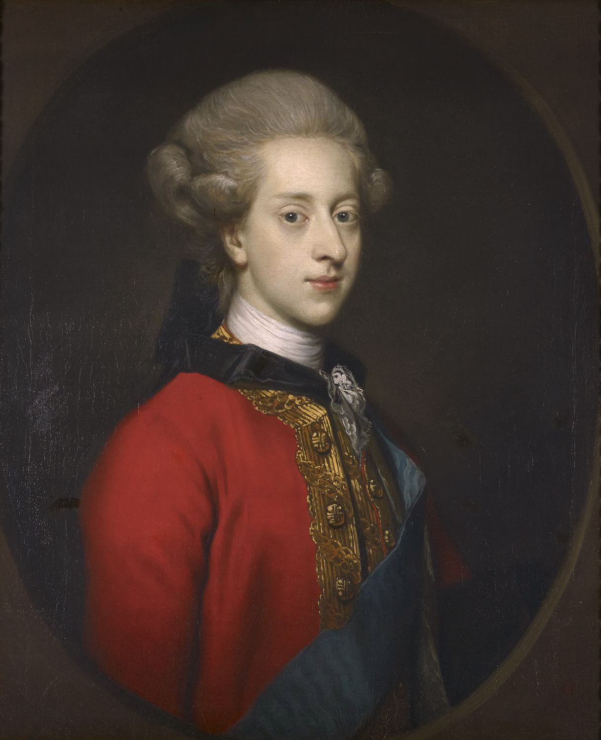 Portrait of Christian VII, King of Denmark